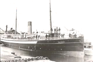 View of a 'shade decked vessel' with a continuous upper deck of light construction and with openings on the sides. These have been boarded up for the passage out to India. The bridge is forward, to assist in navigating congested waterways. She has a single funnel, two masts and a fore-and-aft rigged sail furled against the forward mast. The crew is on board. Subject Notes :SS Vaitarna was a steel screw steamer of 292 tons and was the first ship to be built by the new Grangemouth Dockyard Co. She was equipped with electric light, the first such British ship being launched at Dumbarton two years earlier. Sister ship to Rajapuri. On Thursday 8 November 1888, while sailing from Karachi to Bombay, she sank in a storm somewhere in the Arabian Sea off Porbandar. The loss of life appears to have been heavy and the tragedy became part of Gujarati folklore. Subject of : Grangemouth Dockyard Co Ltd Subject Place : Grangemouth area/Grangemouth Docks